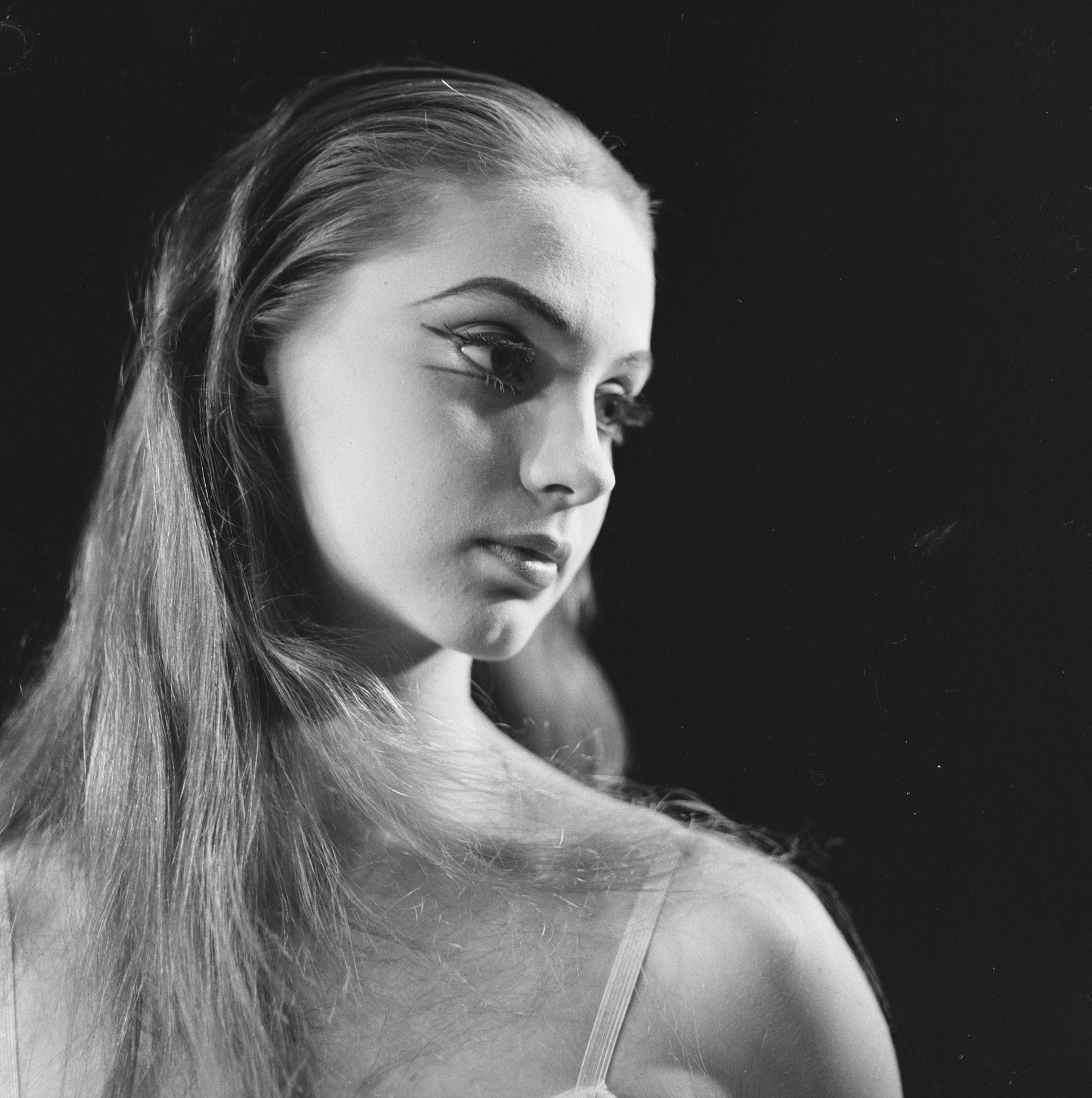 New York City Ballet in Amsterdam, Suzanne Farrell